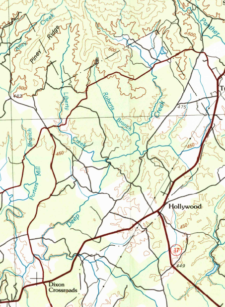 HUC 031300010203 topographical map, using the 1981 Toccoa 30x60 grid, showing Deep Creek and the Soque River